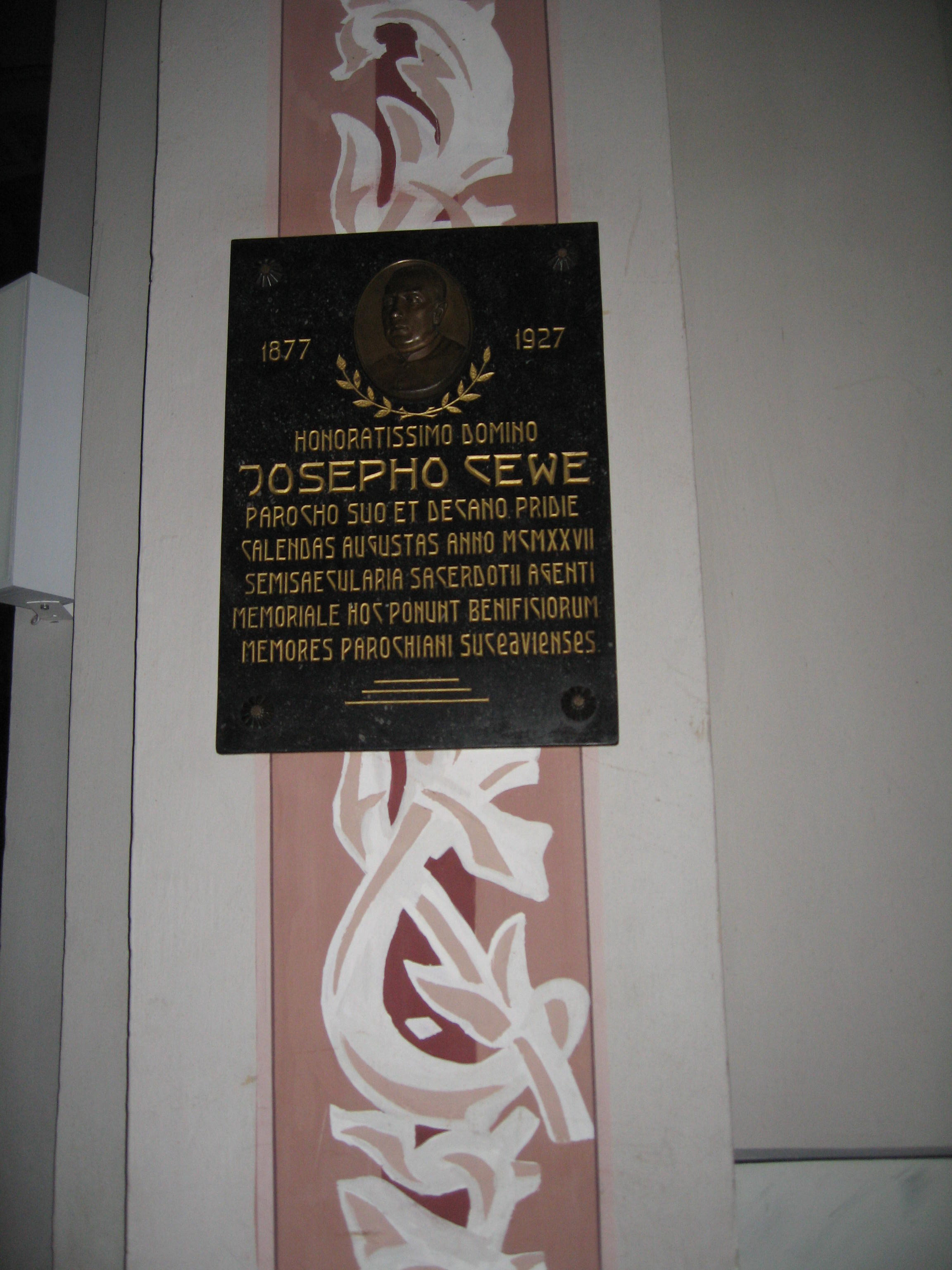 St. John of Nepomuk Roman Catholic Church in Suceava - memorial plaque (1927).